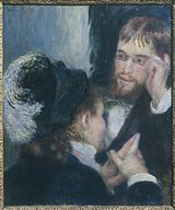 Conversation with the Painter (behind: PS Cordey)